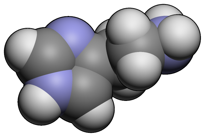 3d molecular spacefill of Histamine